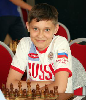 Andrey Esipenko in 2017 year